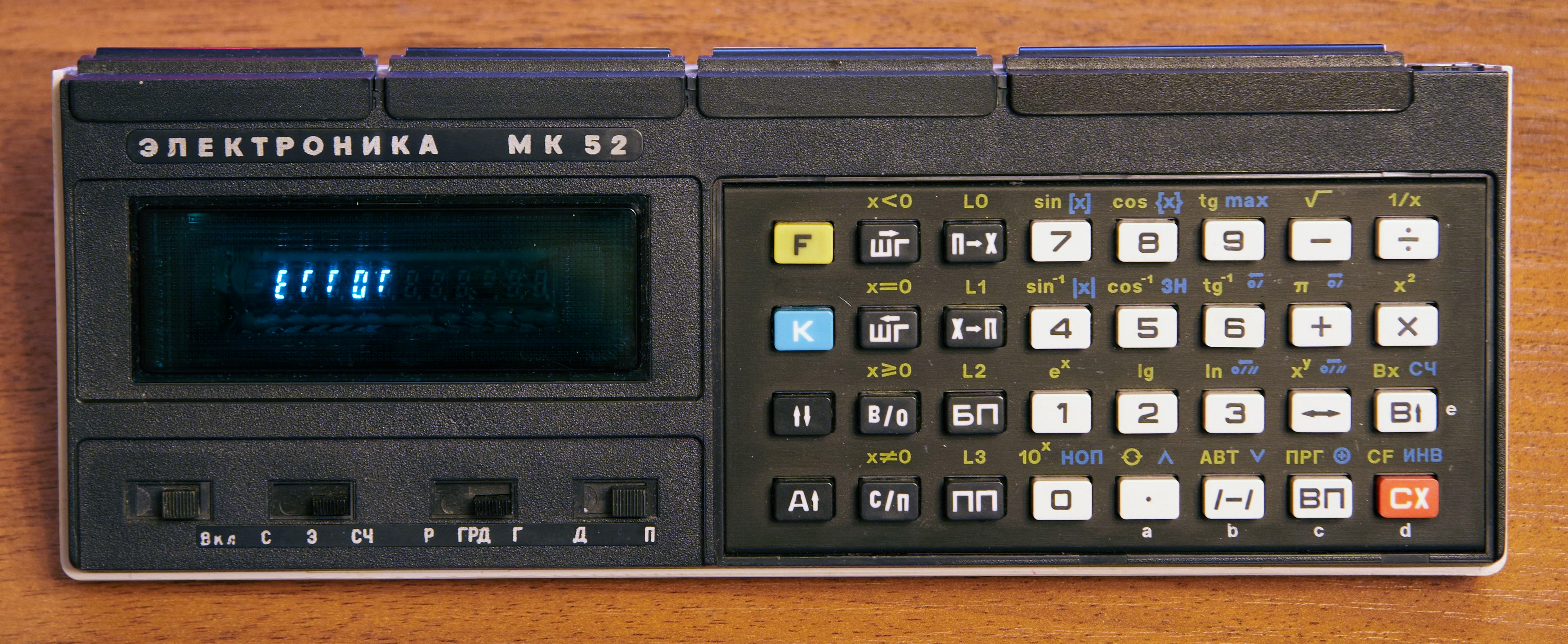 Elektronika MK-52 with an ERROR message